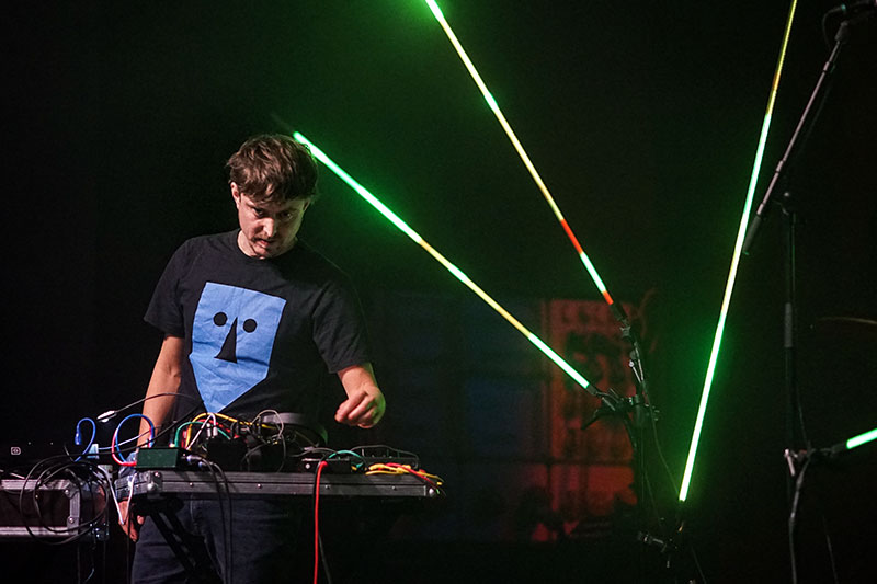 Jens Berents Christiansen / Rumpistol og KALAHA at Vinterjazz Aarhus 2019